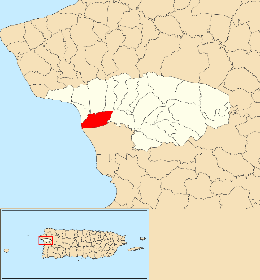 Añasco Abajo, Añasco, Puerto Rico locator map